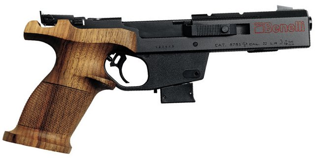 Benelli MP 95 E